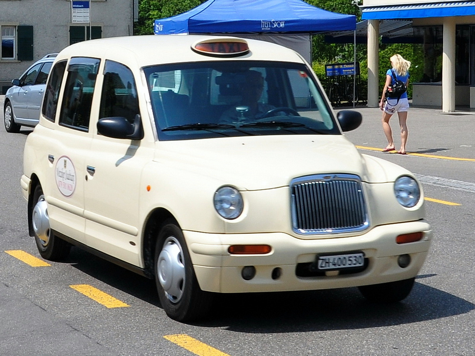 LTI TXII taxi Kennzeichen Zürich